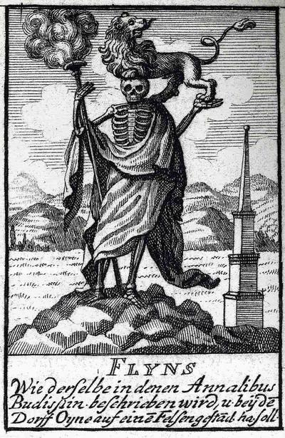 Flins